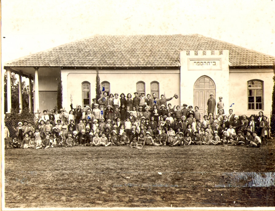 Pupils in Hadera, Education in Israel